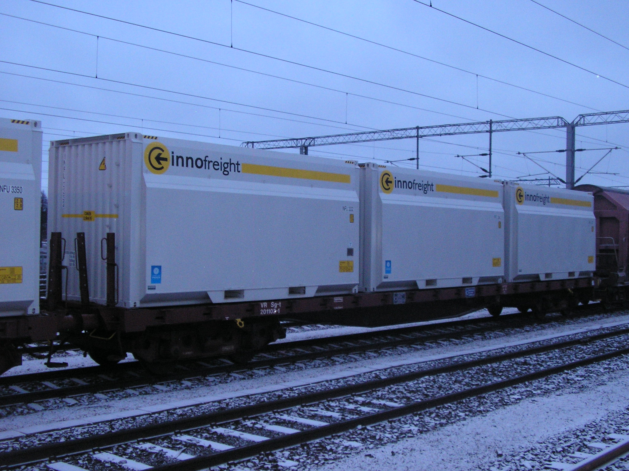 Three Innofreight 20' containers of Jyväskylän Energia on Sg-t wagon at Jyväskylä railway station